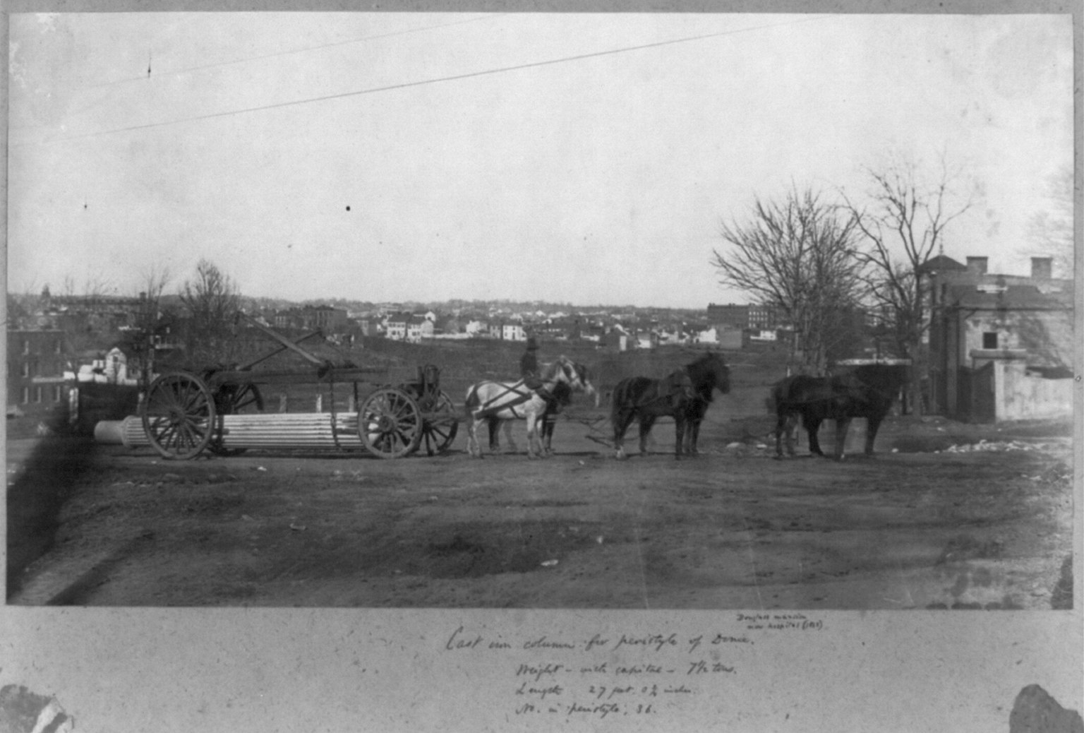 Title: Cast iron column for peristyle of dome, U.S. Capitol Abstract/medium: 1 photographic print : salted paper ; 22 x 40 cm.